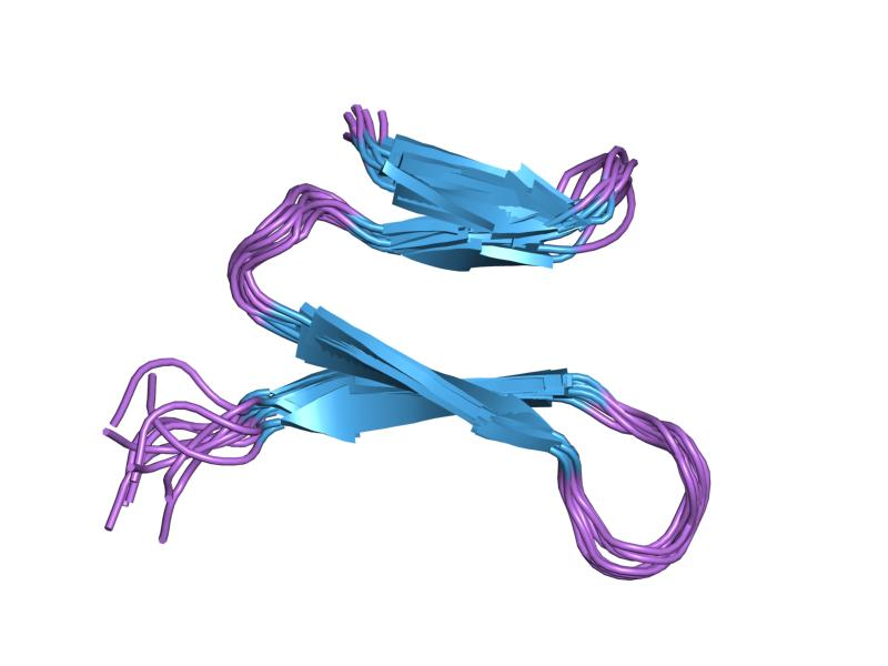 Cartoon representation of the molecular structure of protein registered with 1g26 code.